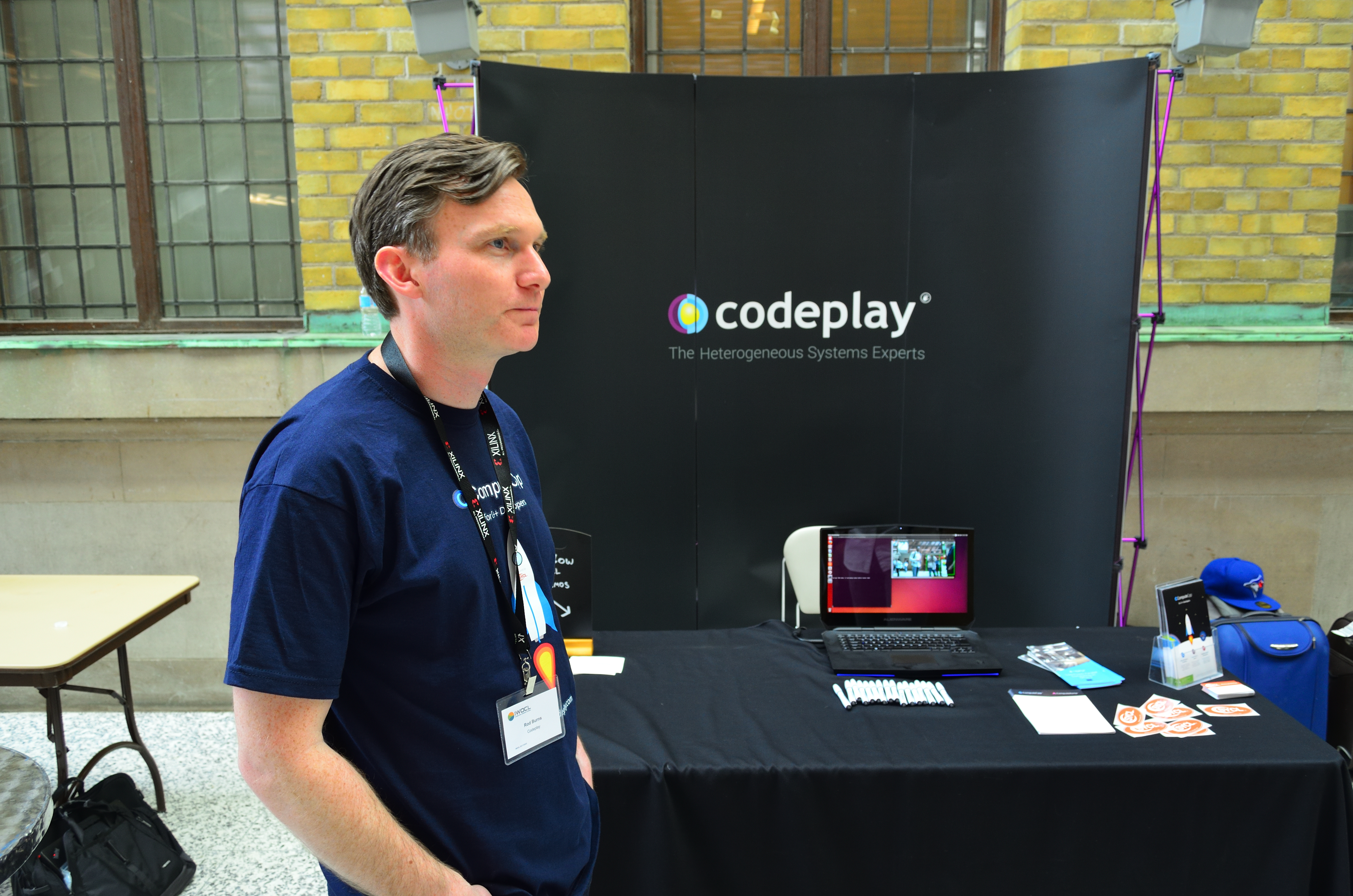 Codeplay at IWOCL 2017